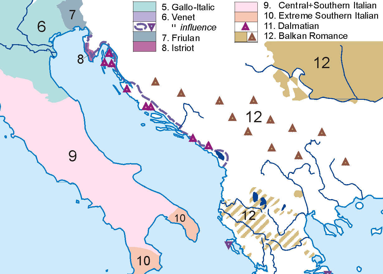 Dalmatian language in XIV century